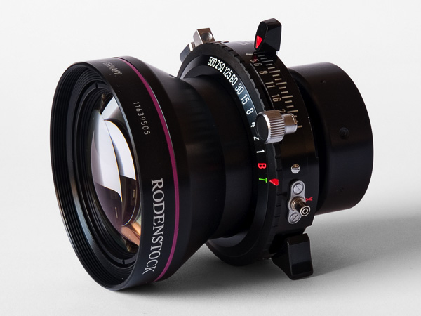 Rodenstock HR Digaron-S 100 mm f4 Copal 0 (alte Bezeichnung: Apo-Sironar Digital HR) own photo, Nov. 18, 2005 photo: nomo/michael hoefner